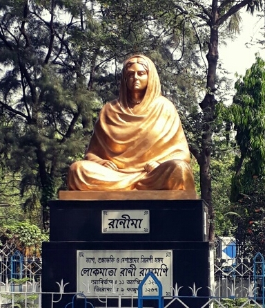 Rasmani's Statue in kolkata